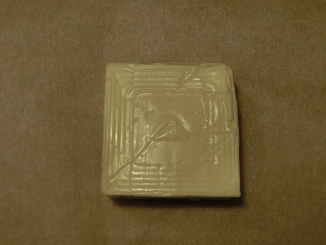 French cheese Kiri